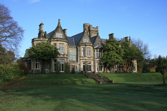 The south front, Insole Court, Llandaff. The tower 1257677 can be just be seen over the top of the roof, and originally with its slated roof would have been an impressive sight. The trees growing in front of the right hand side of the house would seem to need urgent attention, as the trunks are within inches of the walls and one would think that the root systems may be damaging the foundations of the house, as well as blocking light from the rooms they hide. Hopefully Cardiff City Council's plans will see these appropriately dealt with. Visit for more information on this house and its gardens.